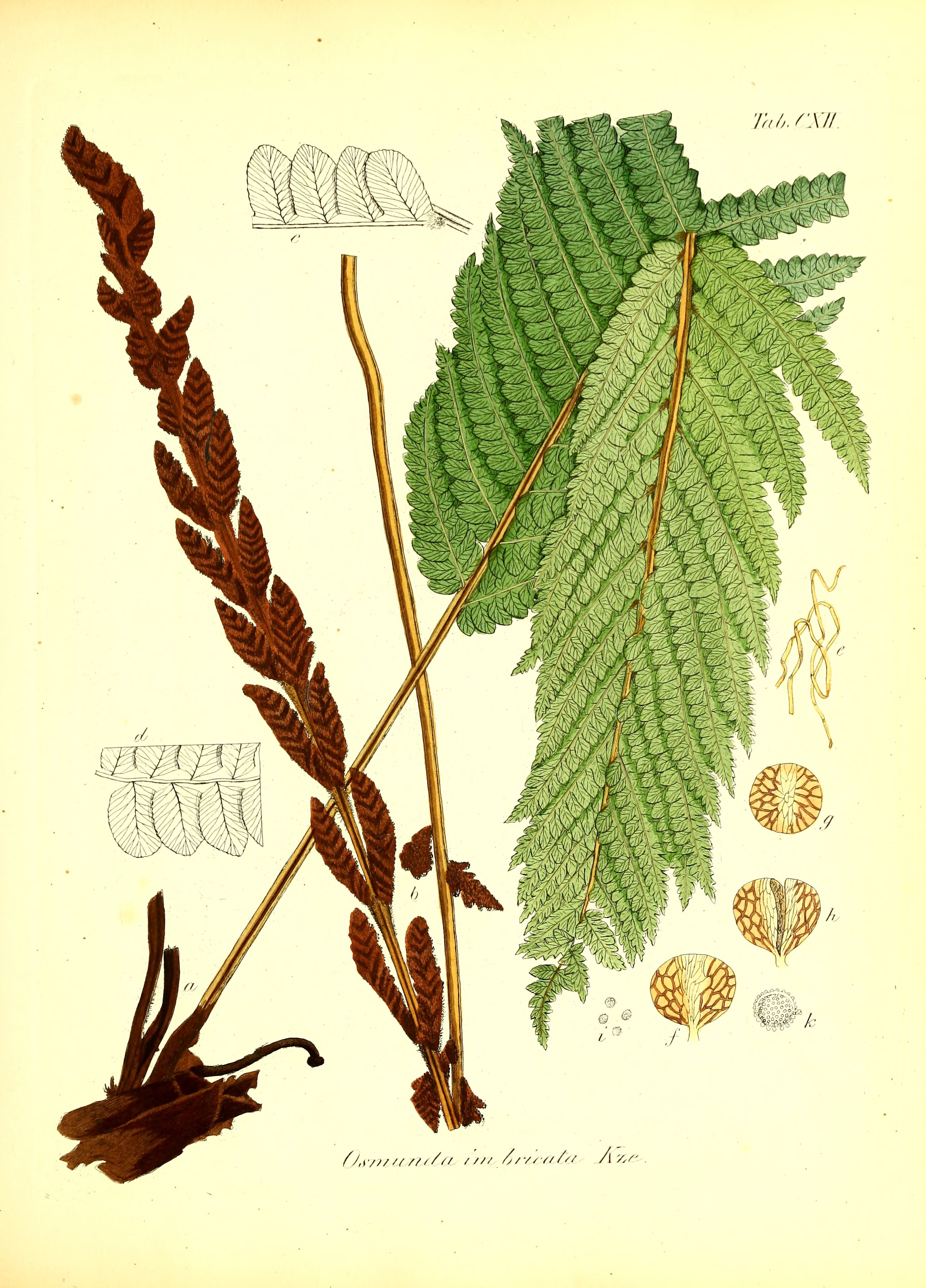 Title: Die Farrnkräuter in kolorirten Abbildungen naturgetreu Erläutert und Beschrieben Year: 1840 (1840s) Authors: Kunze, Gustav, 1793-1851 Subjects: Ferns Publisher: Leipzig, E. Fleischer Text Appearing Before Image: ' Text Appearing After Image: '